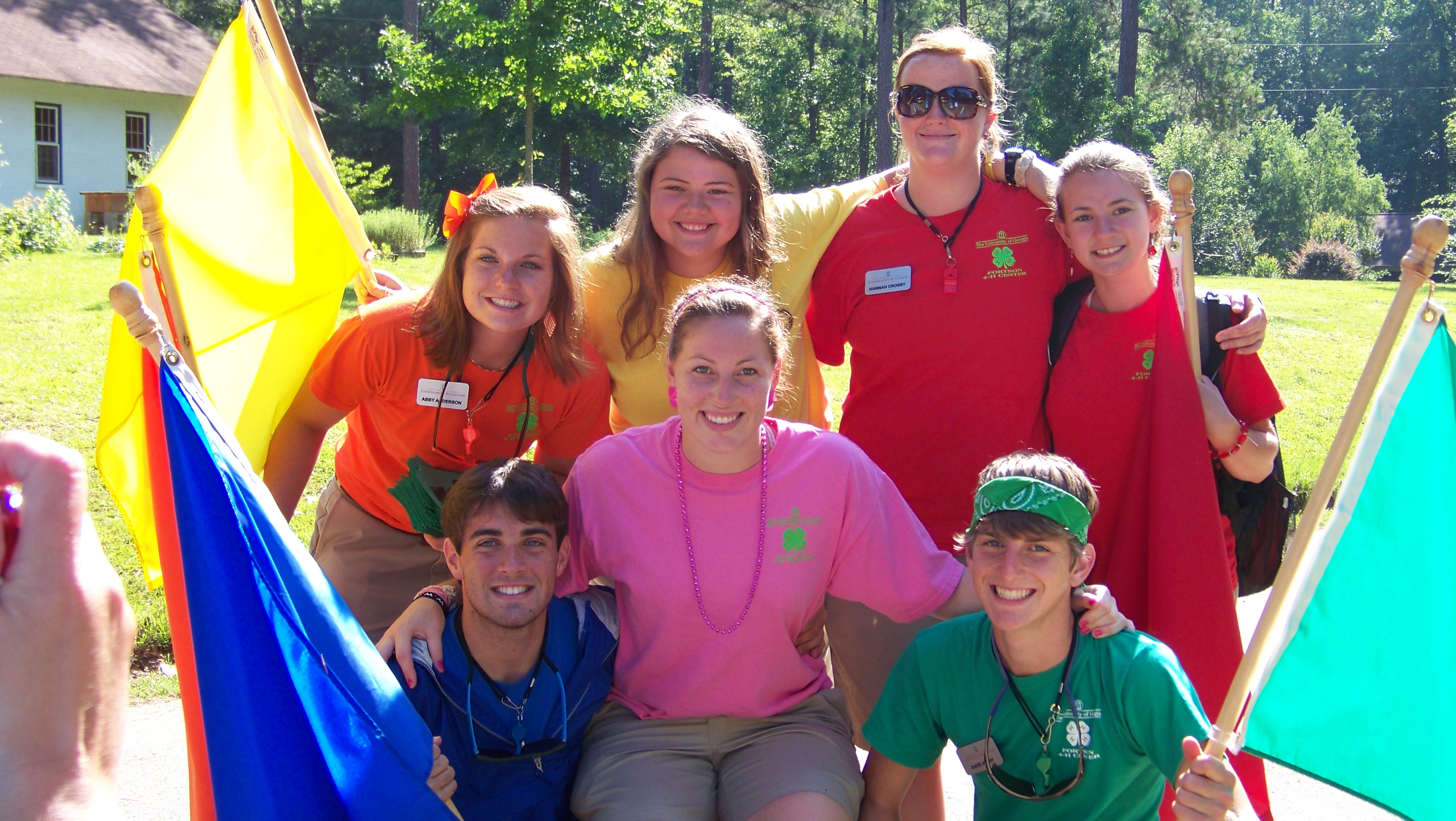 A picture of the 2010 Camp Fortson 4-H Counselors. This picture enhances the meaning of the paragraph it supports as to giving a better picture of the Georgia 4-H image.